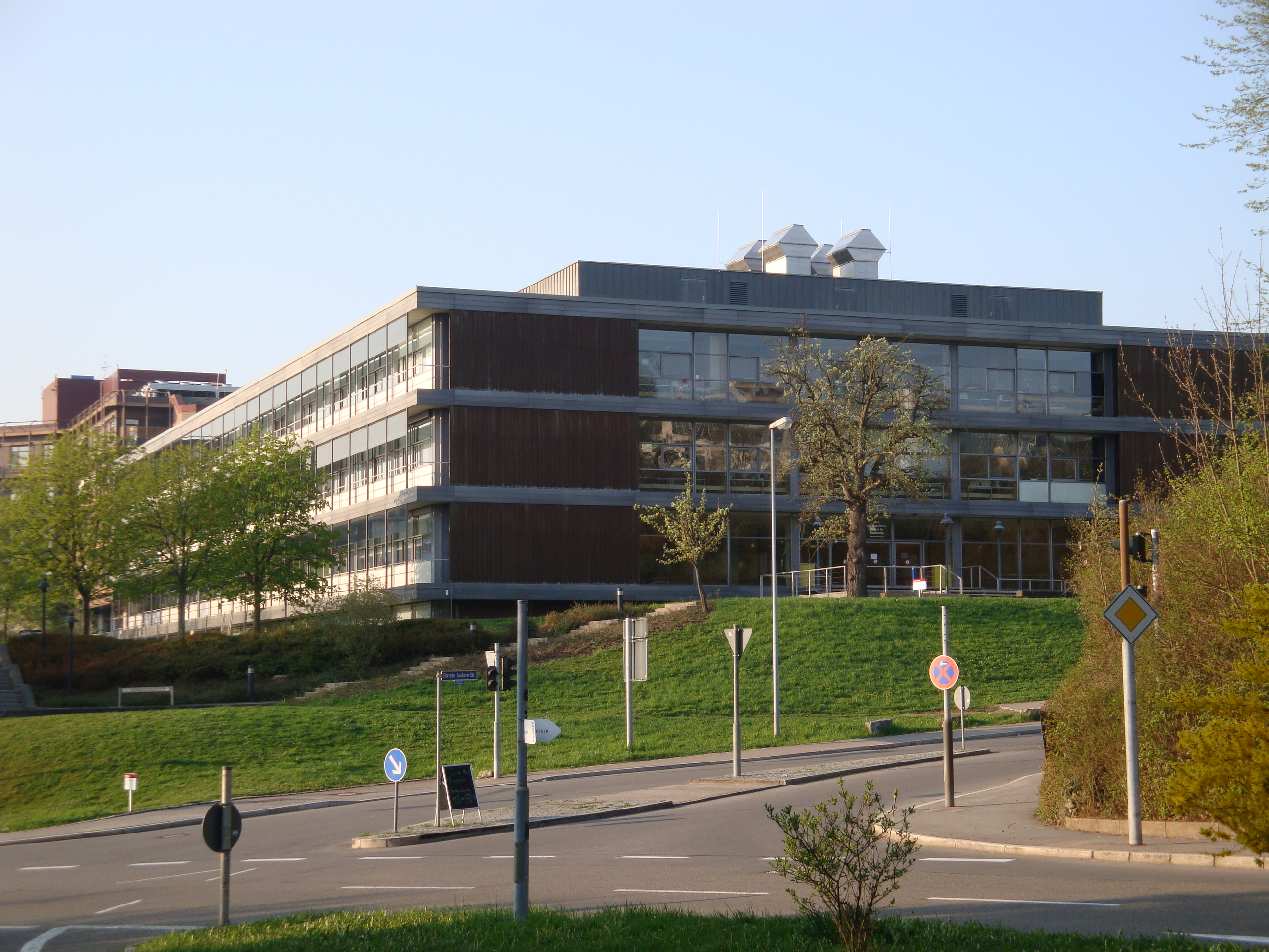 Biochemistry Building Tübingen